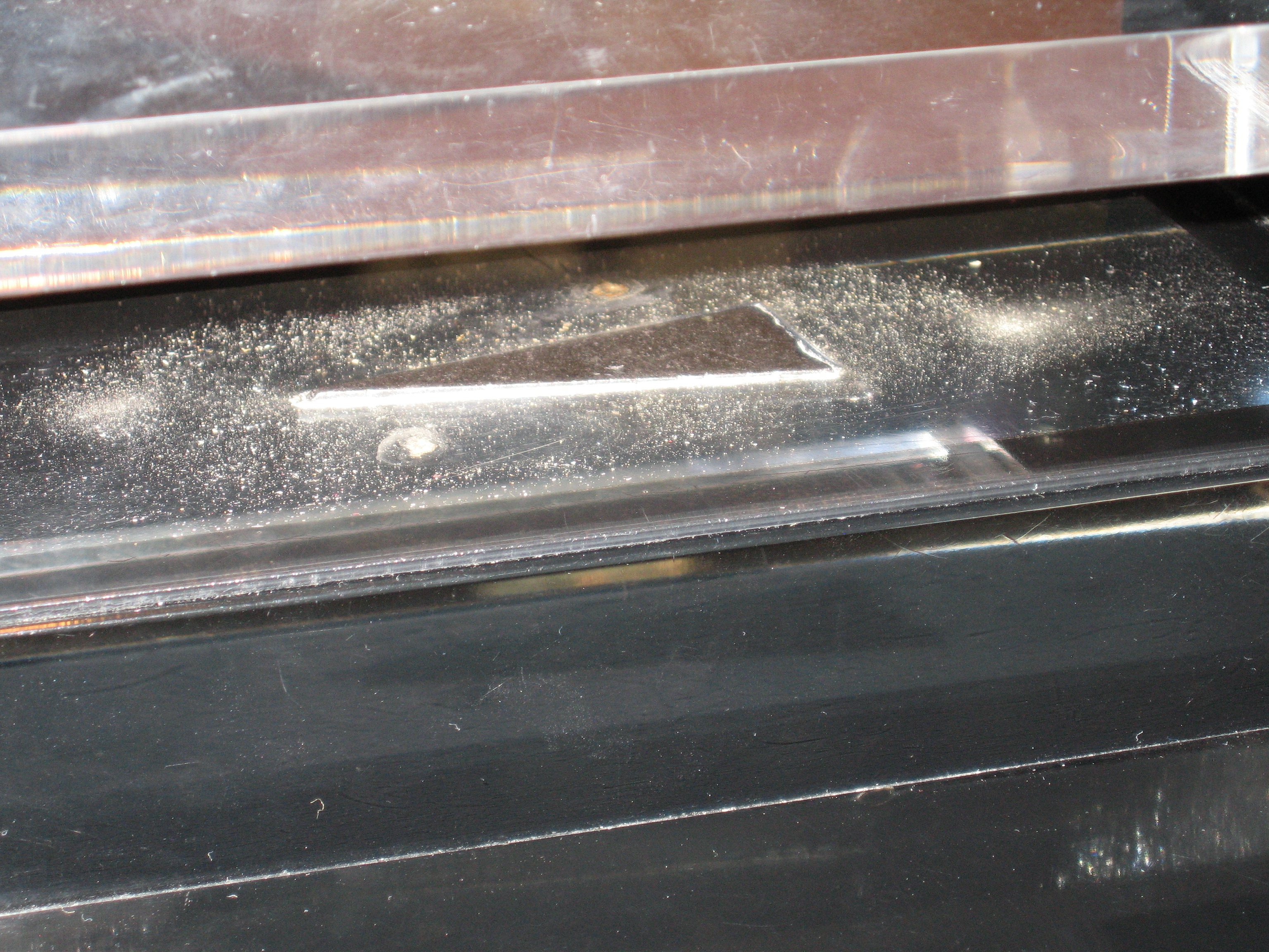 A slice of moon rock available at the National Air and Space Museum of the Smithsonian Institution for visitors to touch. Taken back to Earth by Apollo 17. This lunar sample was cut from a rock collected on the surface of the Moon during the Apollo 17 mission in December 1972. Found near the landing site in the Valley of Taurus-Littrow, it is an iron-rich, fine-textured volcanic rock called basalt. It is nearly 4 billion years old.